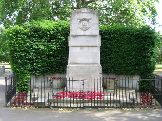 Kennington War Memorial, Kennington Park, London SE11